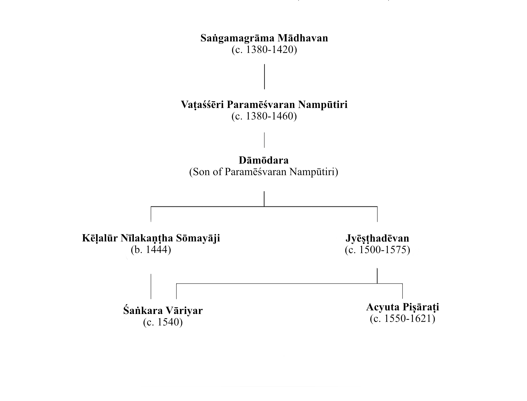 Chain of teachers (or guru parampara) of Kerala school of astronomy and mathematics